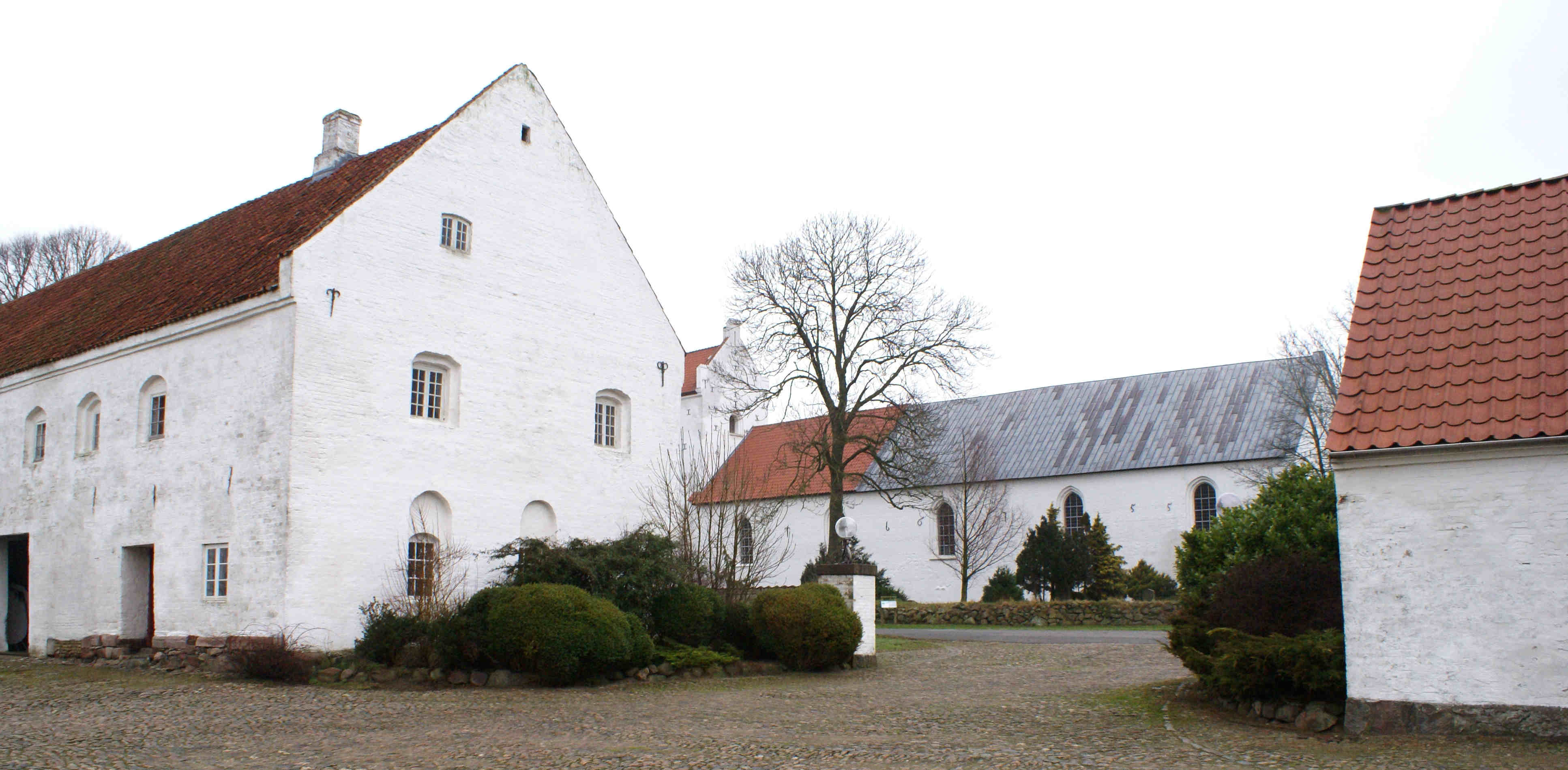 Vrejlev Kloster, Denmark, former convent